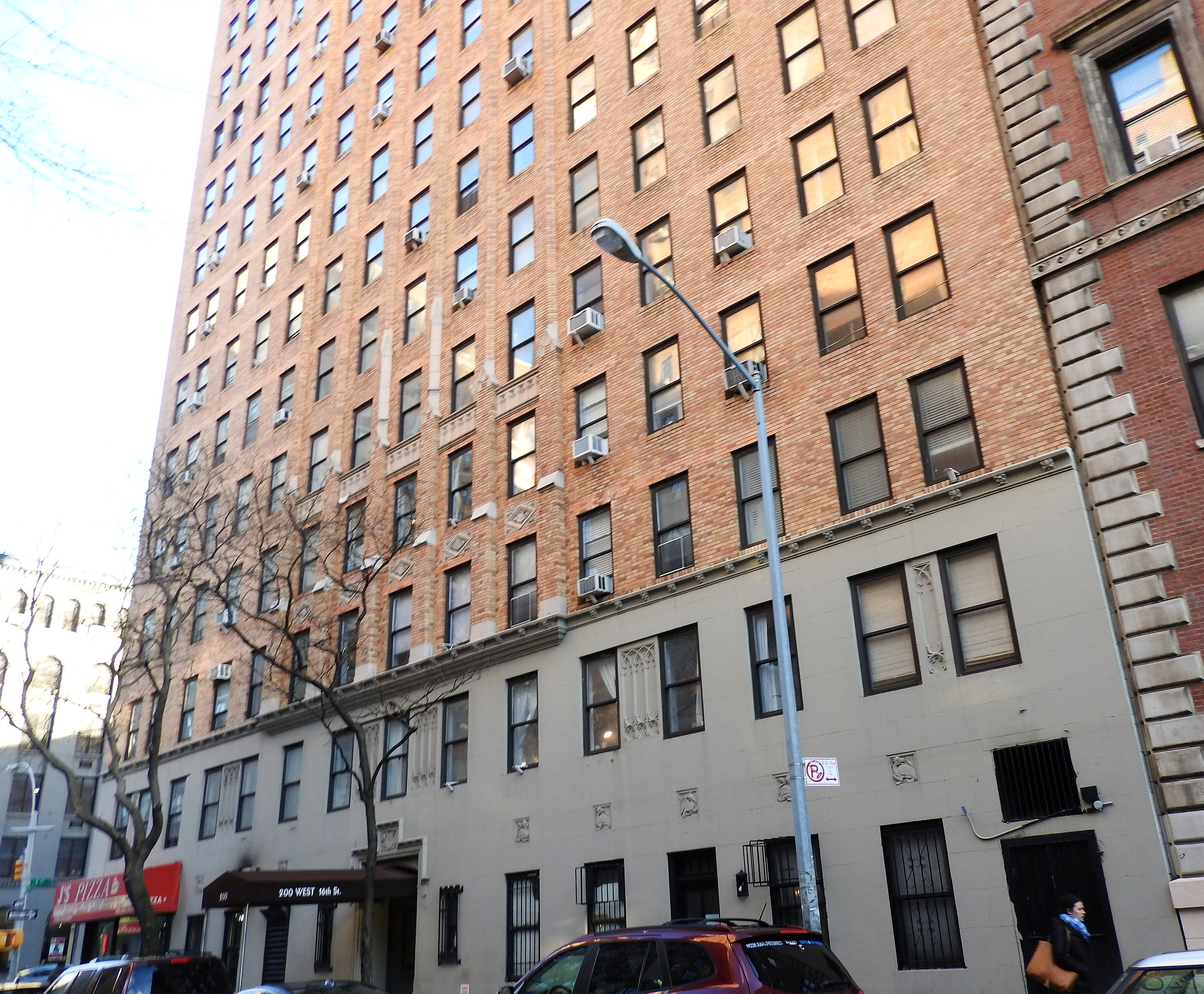 Looking south at 210 West 16th Street on a cloudy afternoon